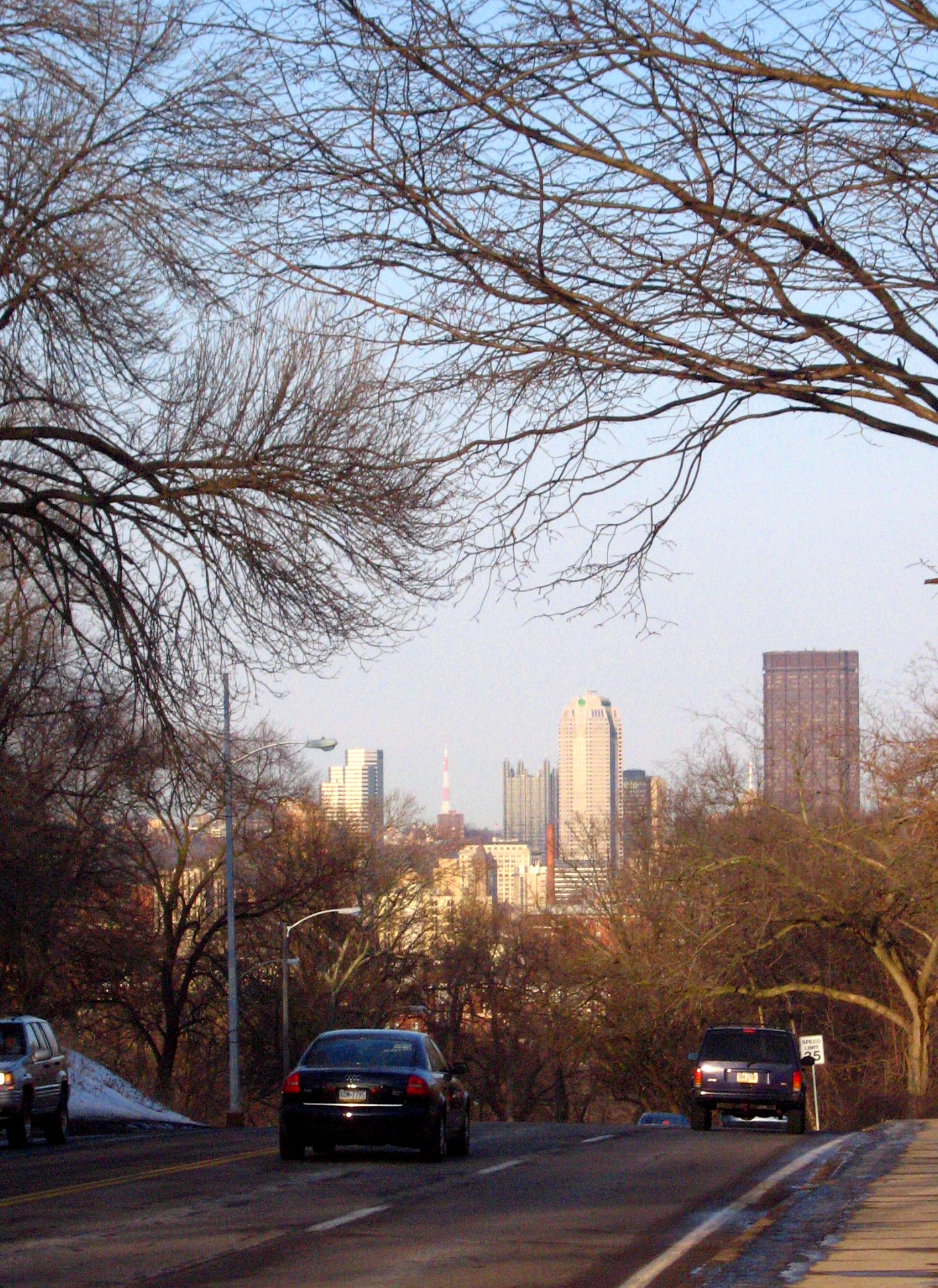 Skyline of downtown Pittsburgh, Pennsylvania, viewed from Panther Hollow Rd in Schenley Park, near the Boulevard of the Allies.